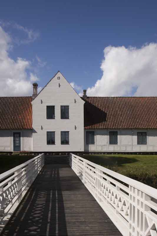 Cheatwindows, Bangsbo Hovedgård, Frederikshavn, Denmark